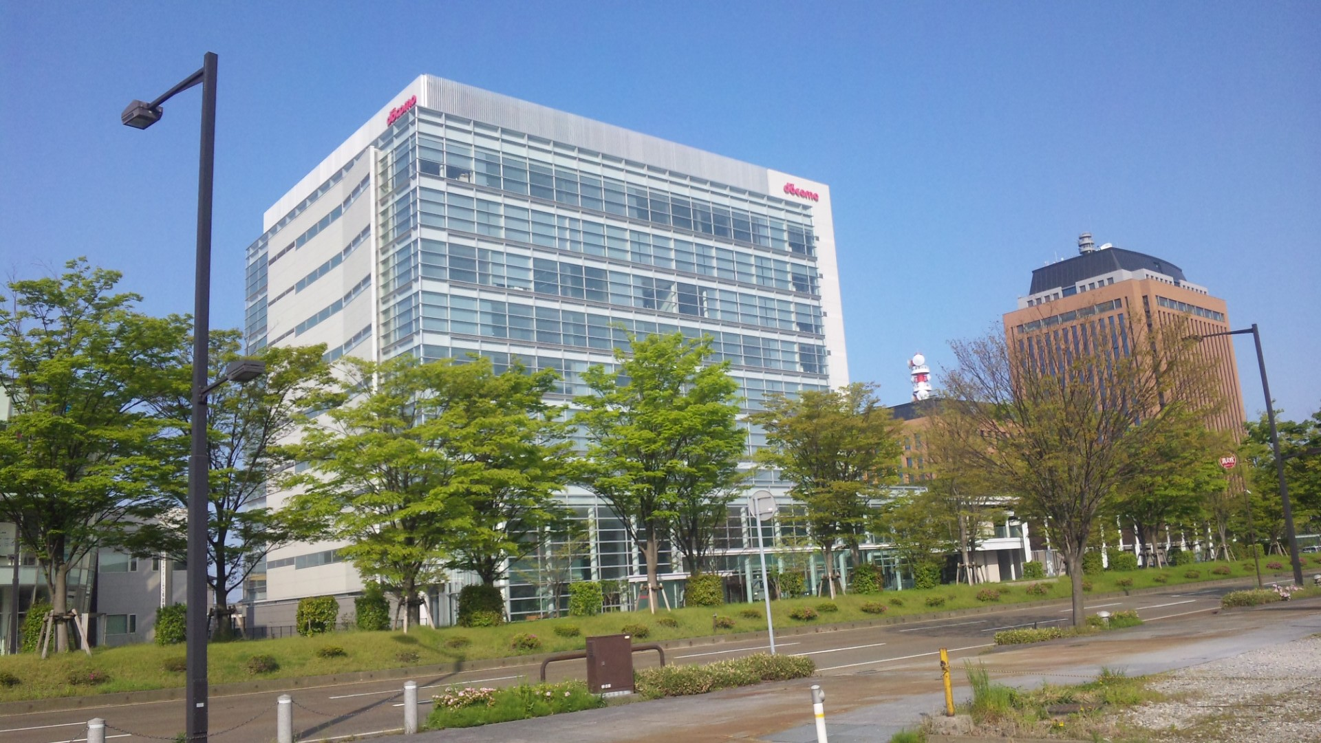 NTT DOCOMO SEITO OFFICE